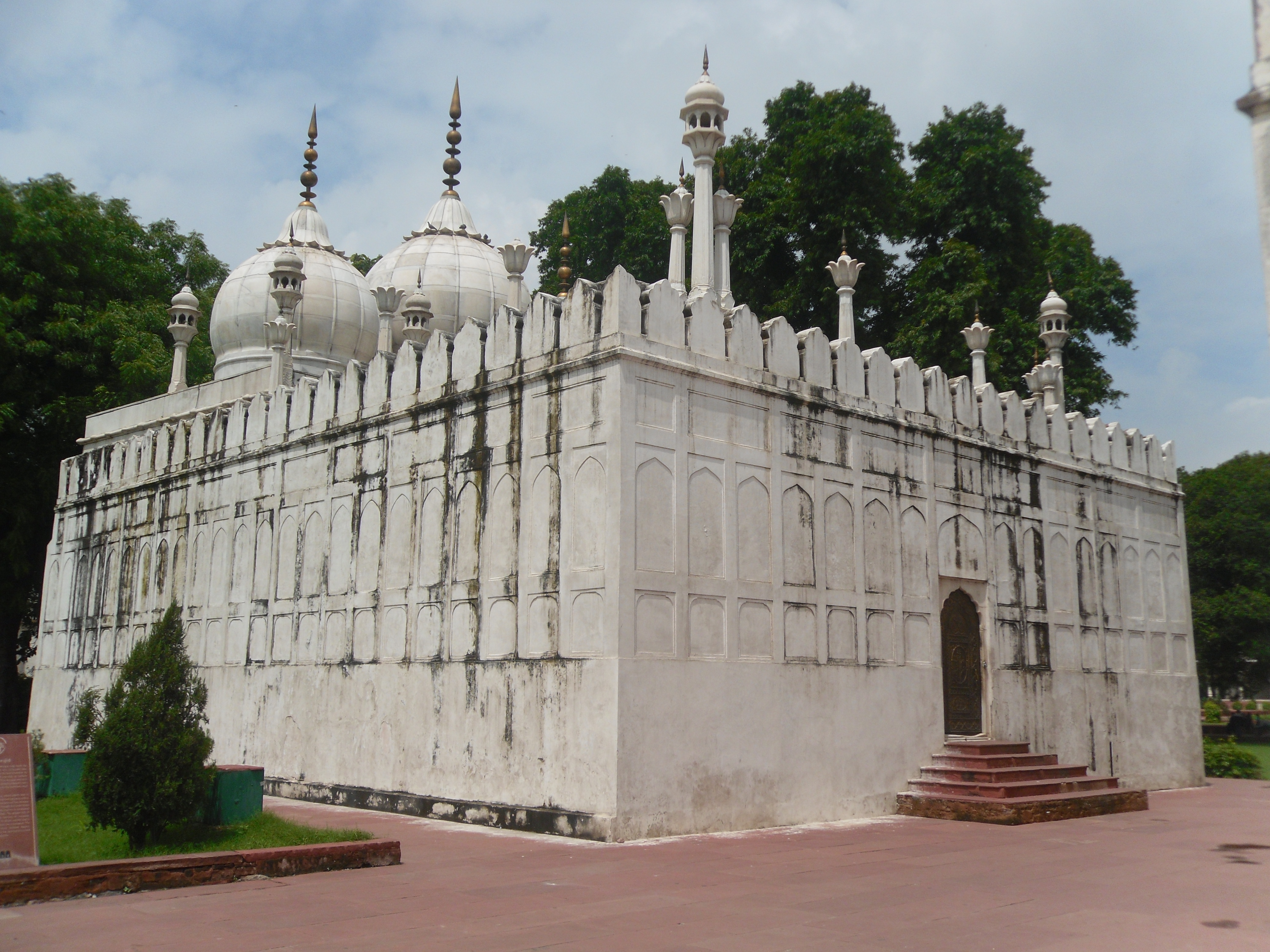 Moti Masjid, inside Red Fort